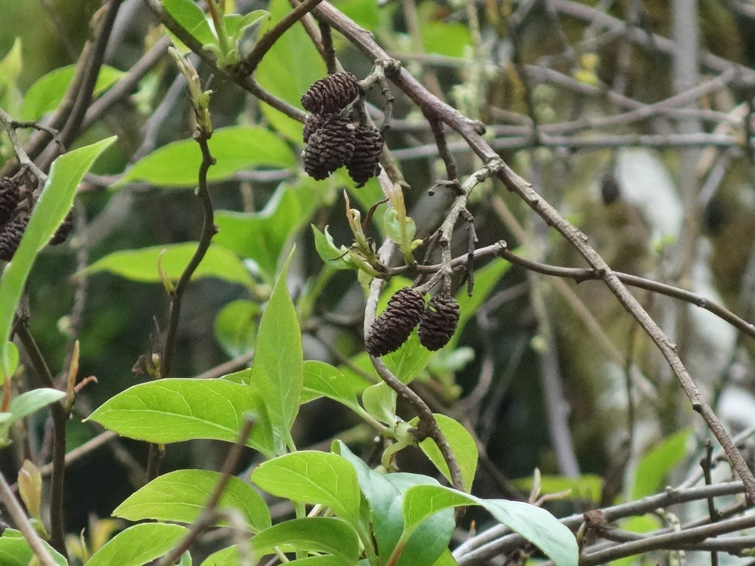 The infructescence of Alnus formosana